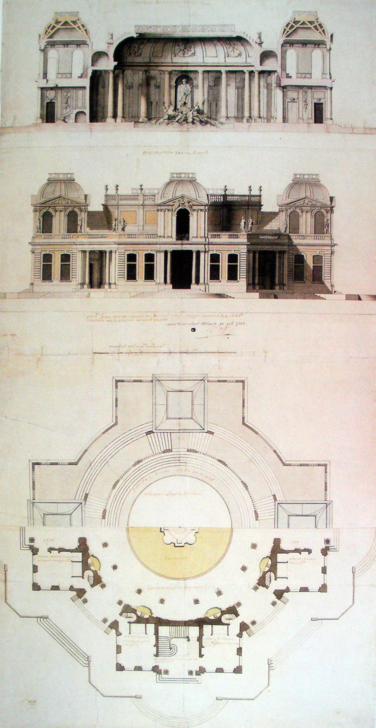 Jean Baptiste Alexandre Le Blond. The project of the Palace of the water in Strelin Manor. 1717